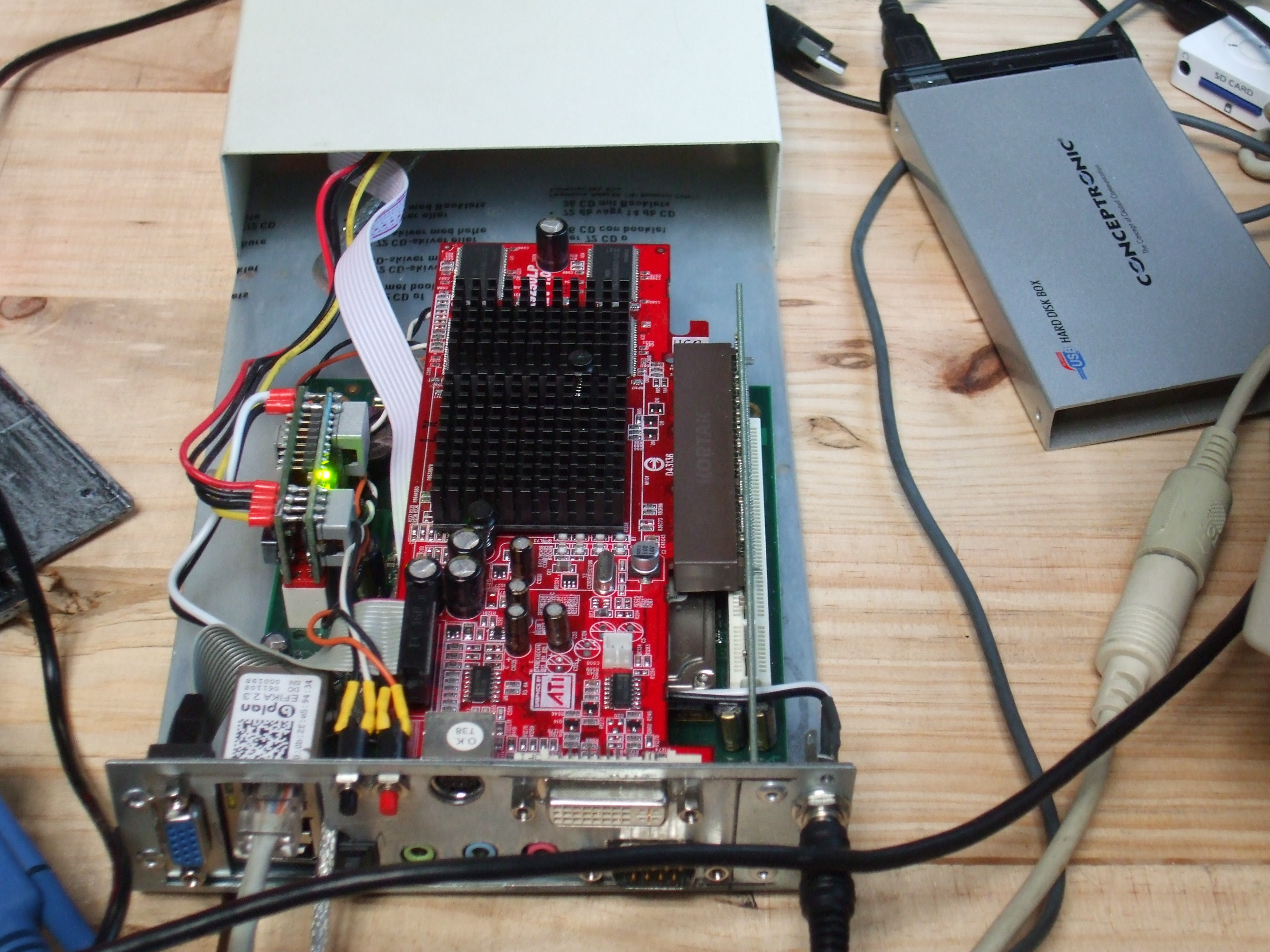 EFIKA 2.3 motherboard in a small case